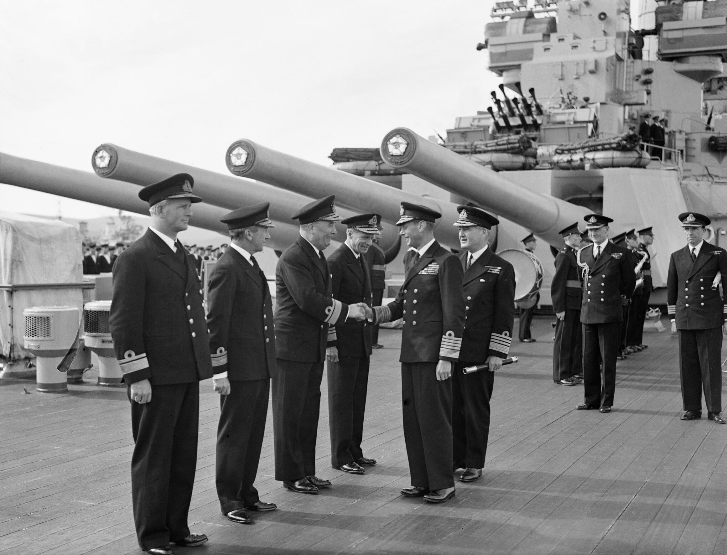 HM King George VI greeting the Flag Officers of the Home Fleet on board the flagship HMS DUKE OF YORK at Scapa Flow, 16 August 1943. HM King George VI greeting the Flag Officers of the Home Fleet on board the flagship HMS DUKE OF YORK at Scapa Flow: (left to right) Rear Admiral I G Glennie, Rear Admiral L H K Hamilton, CB, DSO, Rear Admiral R L Burnett, CB, OBE, DSO (shaking hands with The King), Vice Admiral Sir Henry R Moore, KCB, CVO, DSO, King George VI, and Admiral Sir Bruce Fraser, KBE, CB, Commander in Chief Home Fleet. The quadruple 14 inch Y turret can be seen in the background, stood next to it is the Royal Marine band. The king was taken there on board the flotilla leader ONSLOW.